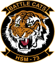 Squadron patch for the HSM-73 Battlecats